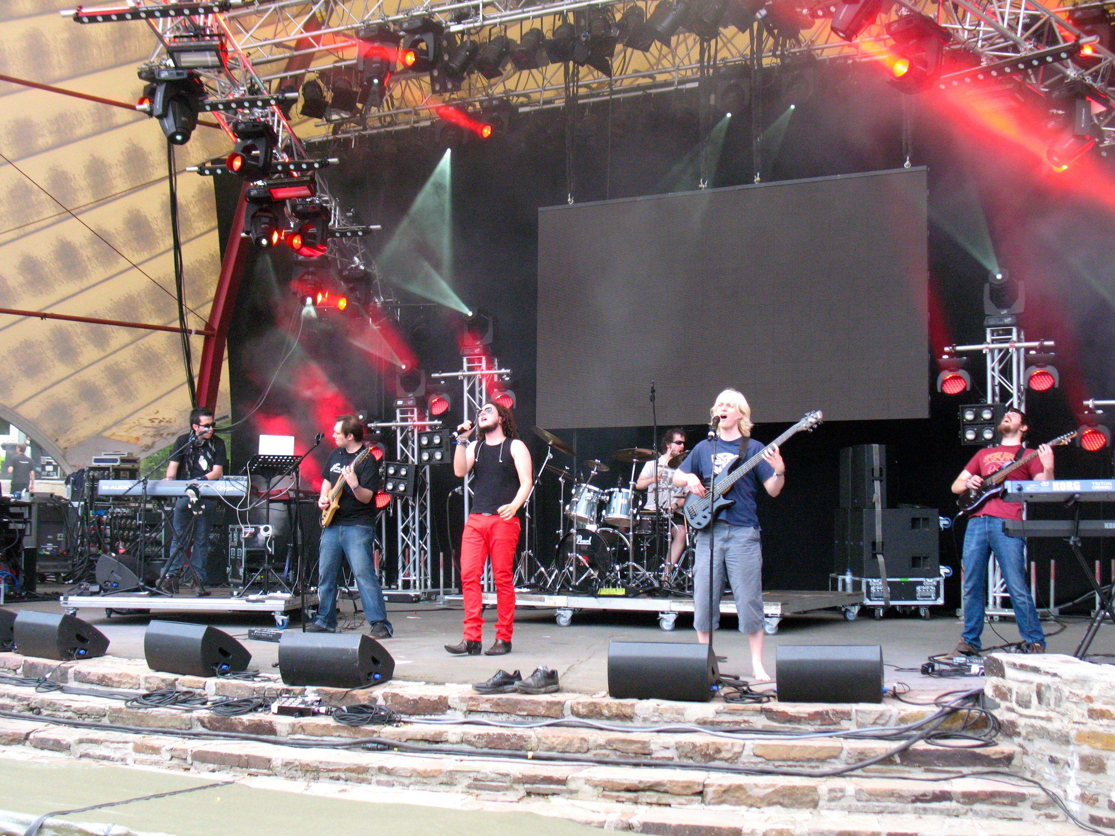 Haken performing live at the 2011 Lorelei.